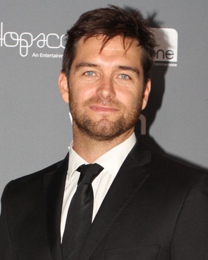 Antony Starr at Wish You Were Here premiere at Entertainment Quarter Hoyts, Moore Park, Sydney Cinema Release Date: 25 Apr 2012 Director: Kieran Darcy-Smith Featuring: Joel Edgerton, Teresa Palmer, Felicity Price, Antony Starr Producer: Angie Fielder Country of Origin: Australia Genre: Drama Official website: Wish You Were Here is a psychological drama/mystery starring Joel Edgerton, Felicity Price and Teresa Palmer. Four friends - husband and wife Dave and Alice, and Alice's sister Steph and her new boyfriend Jeremy - lose themselves in the fun of a carefree South East Asian holiday. However, only three return back to Australia. Dave and Alice come home to their young family desperate for answers about Jeremy's mysterious disappearance. When Steph, returns not long after, a brutal secret is revealed about the night her boyfriend went missing. But it is only the first of many. Who amongst them knows what happened on that fateful night when they were dancing under a full moon in Cambodia? Wish You Were Here is produced by Angie Fielder of the award-winning, independent Australian production company Aquarius Films, in association with the acclaimed indie director's collective Blue-Tongue Films (Animal Kingdom). Websites Wish You Were Here Hopscotch Films Hoyts The Entertainment Quarter Eva Rinaldi Photography Flickr Eva Rinaldi Photography